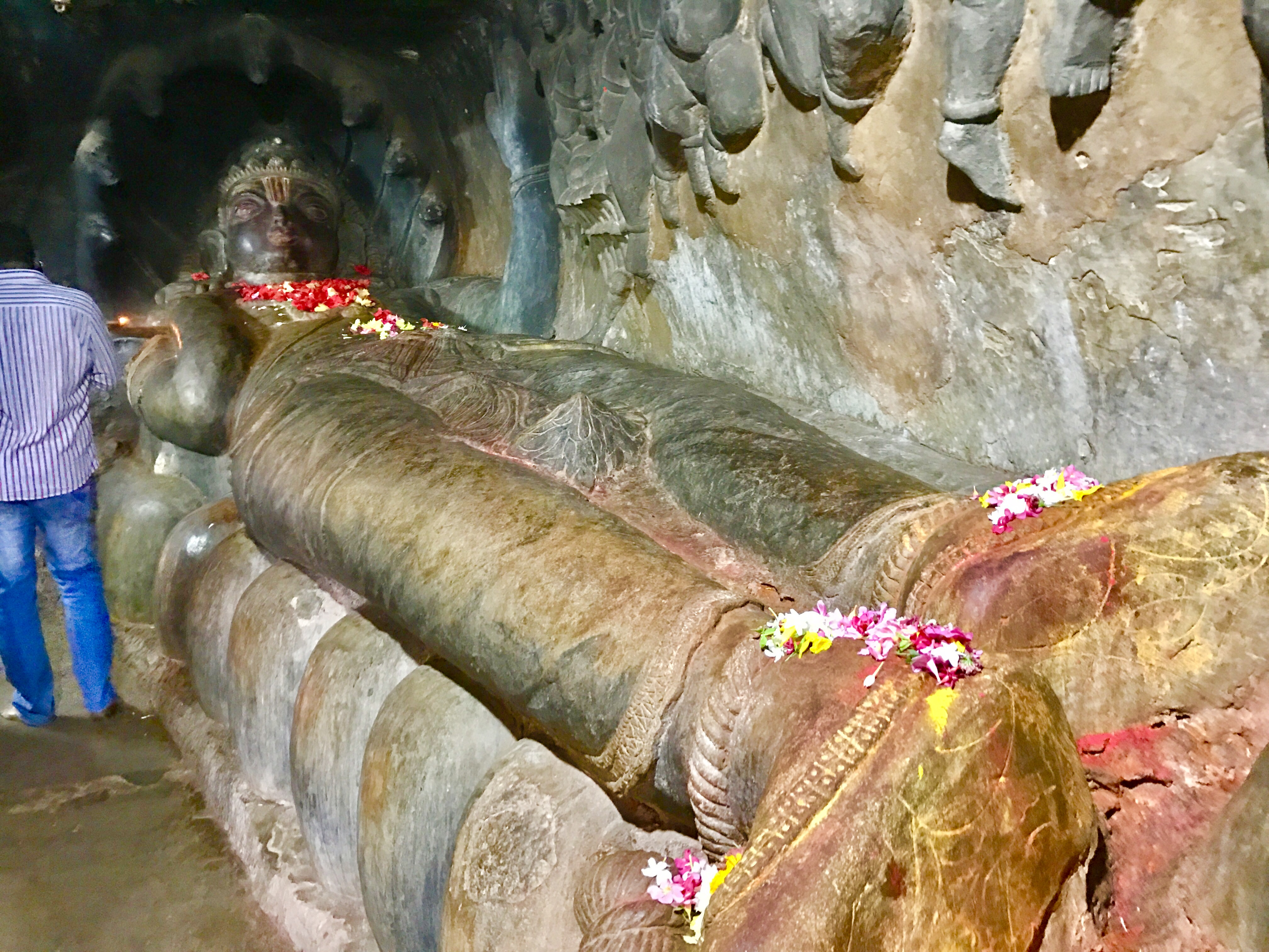 Undavalli caves on Vijayawada-Amaavathi road